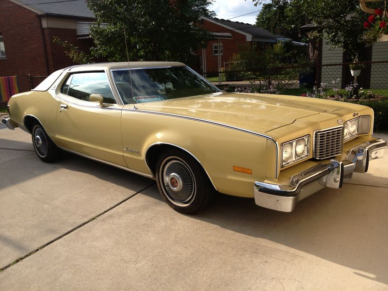 A front 3/4 view of a 1974 Mercury Montego MX Brougham two-door hardtop.